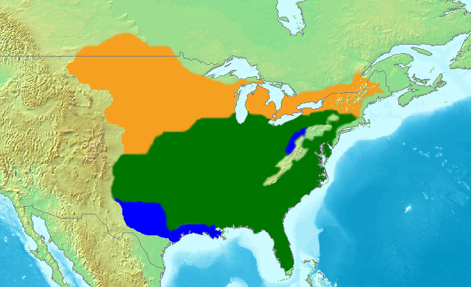 Distribution Map of Melanerpes erythrocephalus